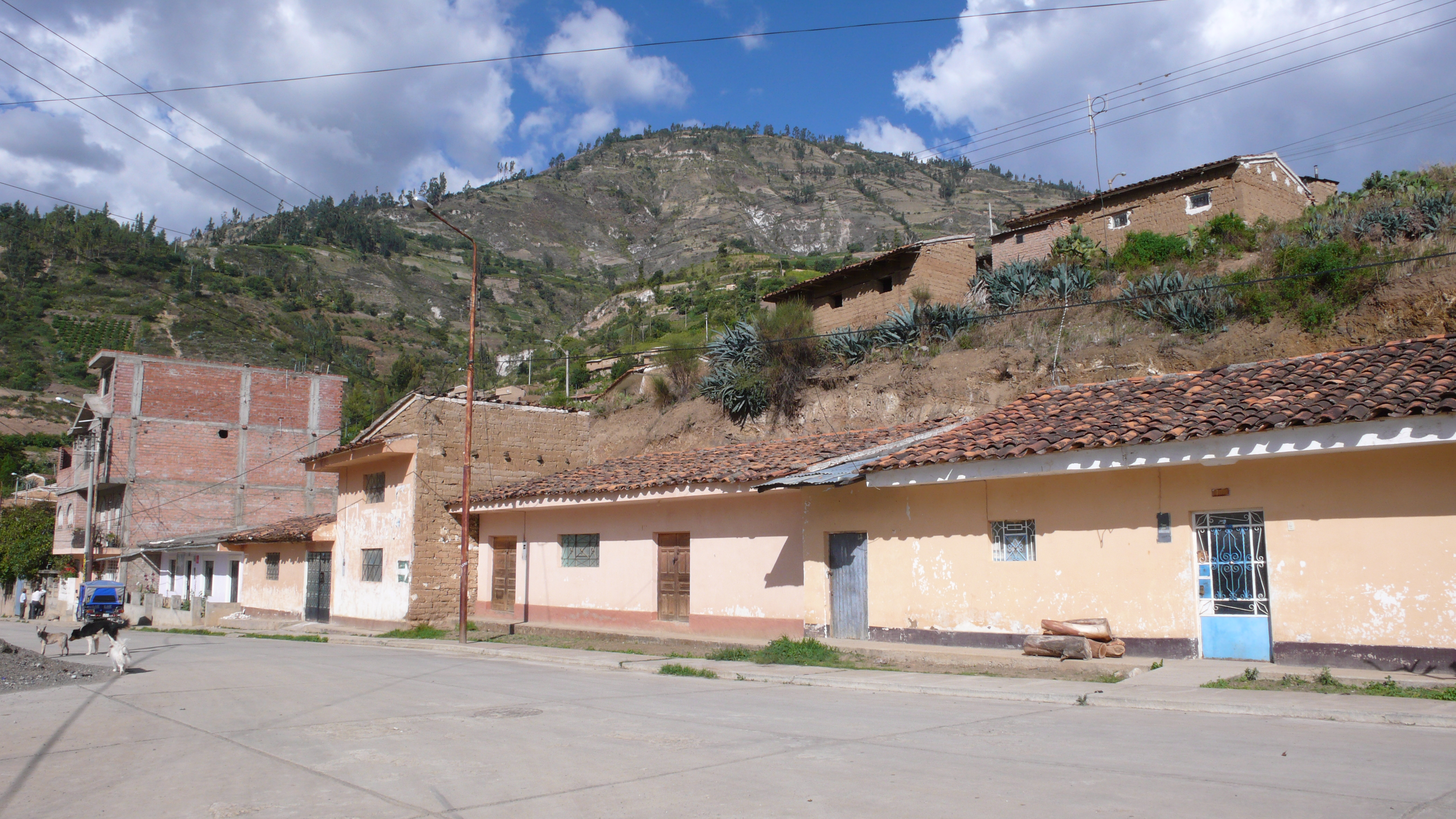 View on the Cerro Atma